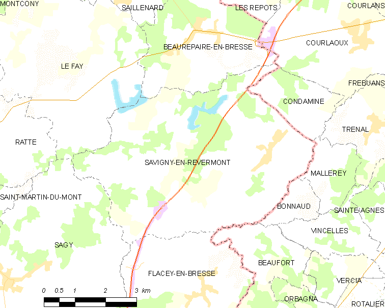 Map of French municipality